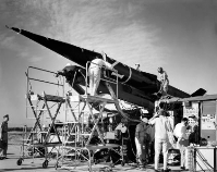 ALPHA DRACO 1 vehicle being prepared for launch at Pat 10, Cape Canaveral Air Force Station